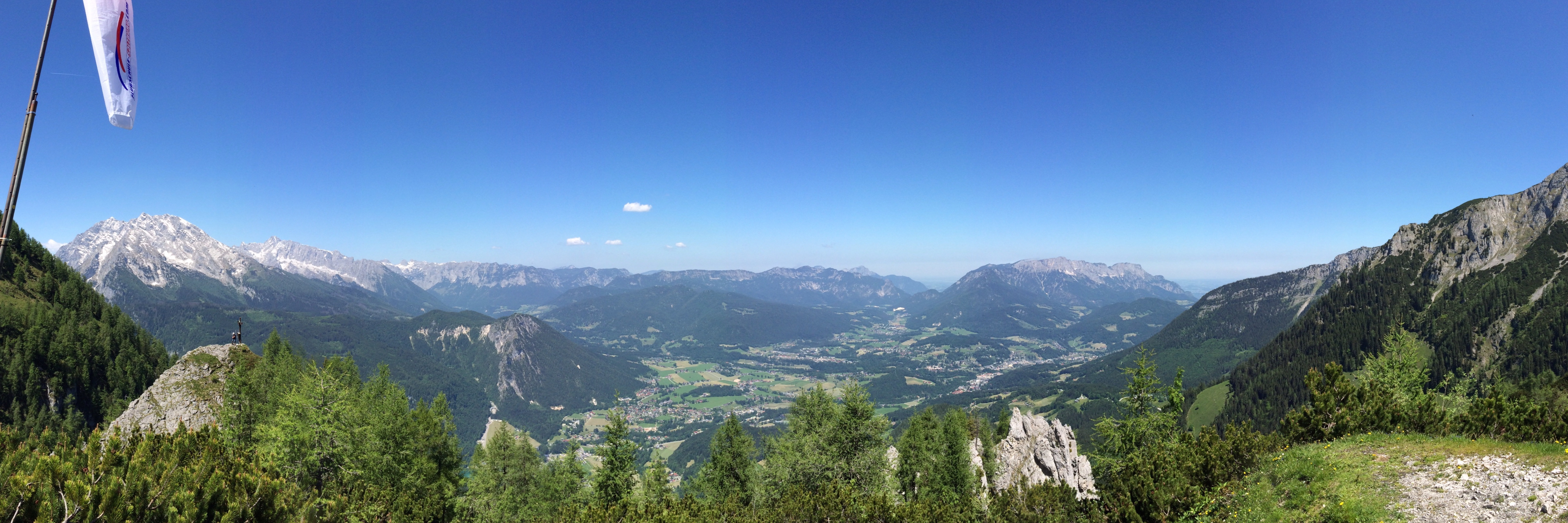 Aussicht im Jennergebiet, Biosphärenreservat Berchtesgadener Land, Bayern